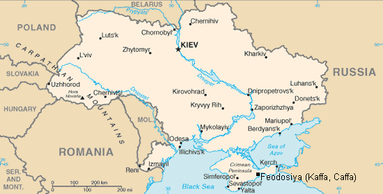 CIA FactBook map of Ukraine with trivial highlighting of Feodosia (historic Caffa)